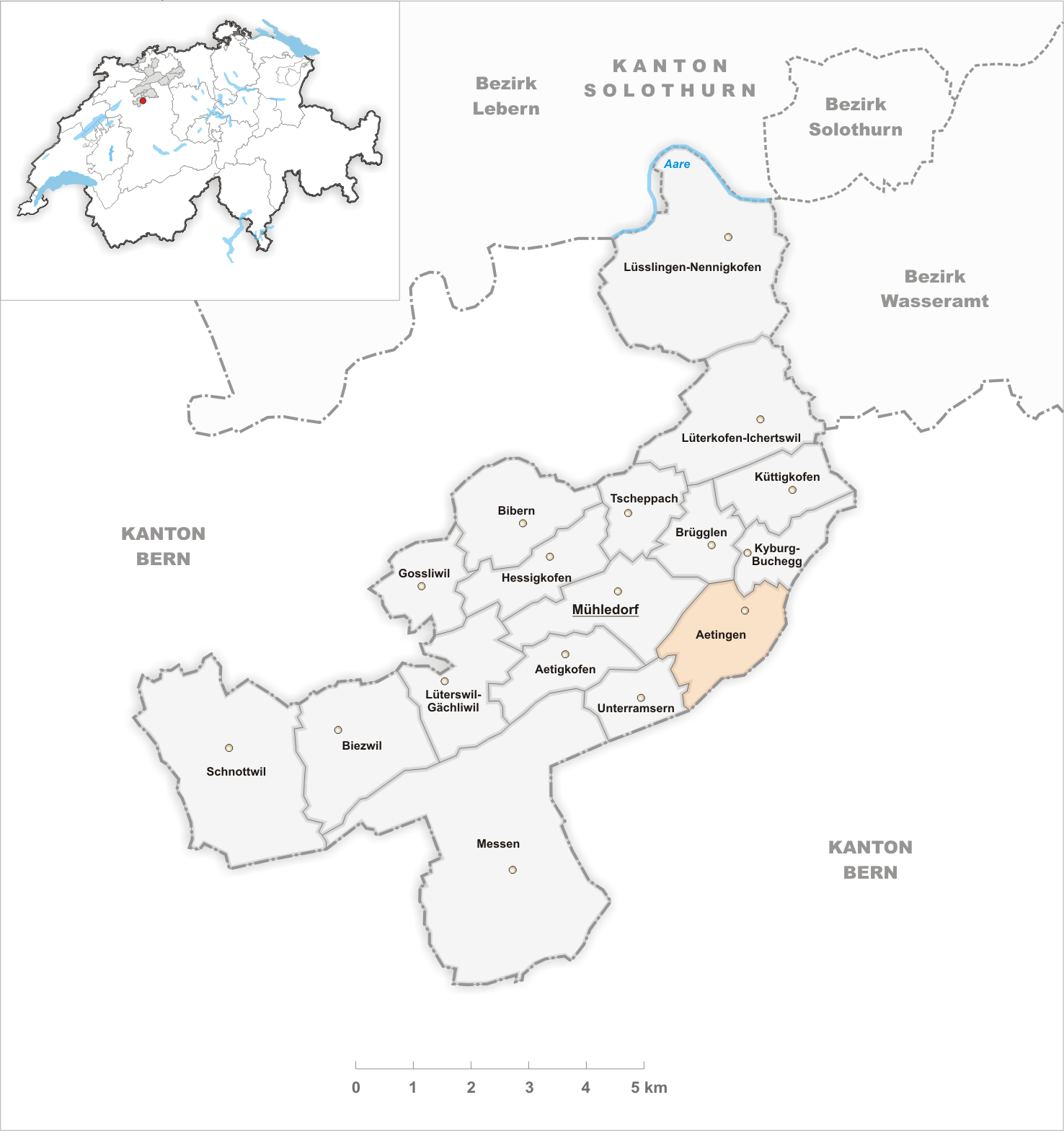 Municipality Aetingen